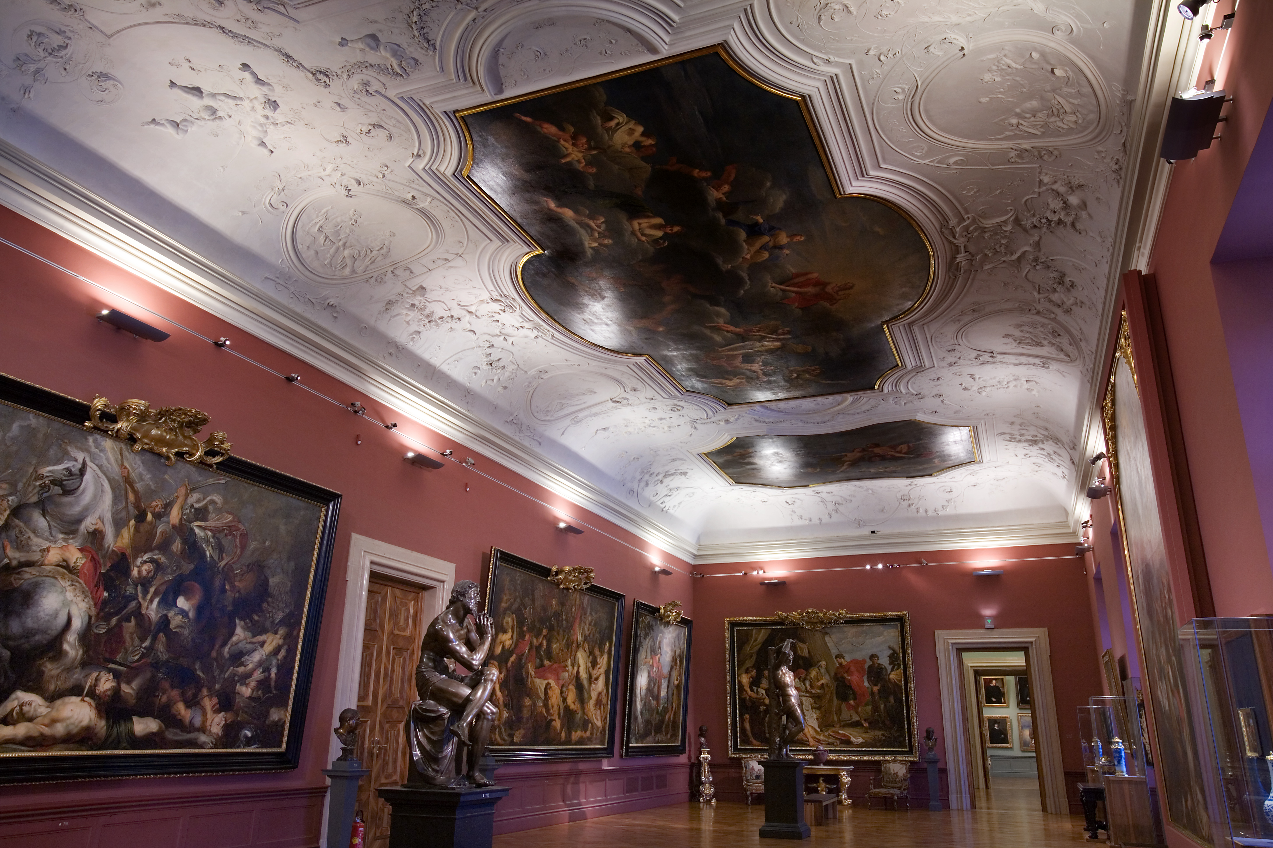 Liechtenstein Museum and Library Vienna, Austria